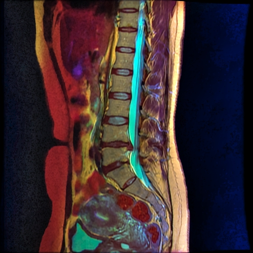 Magnetic resonance imaging of the spine